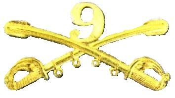 United States Crossed Cavalry Sabers, 9th Cavalry, paint shop modified from hand drawn color sketch with a number 9.